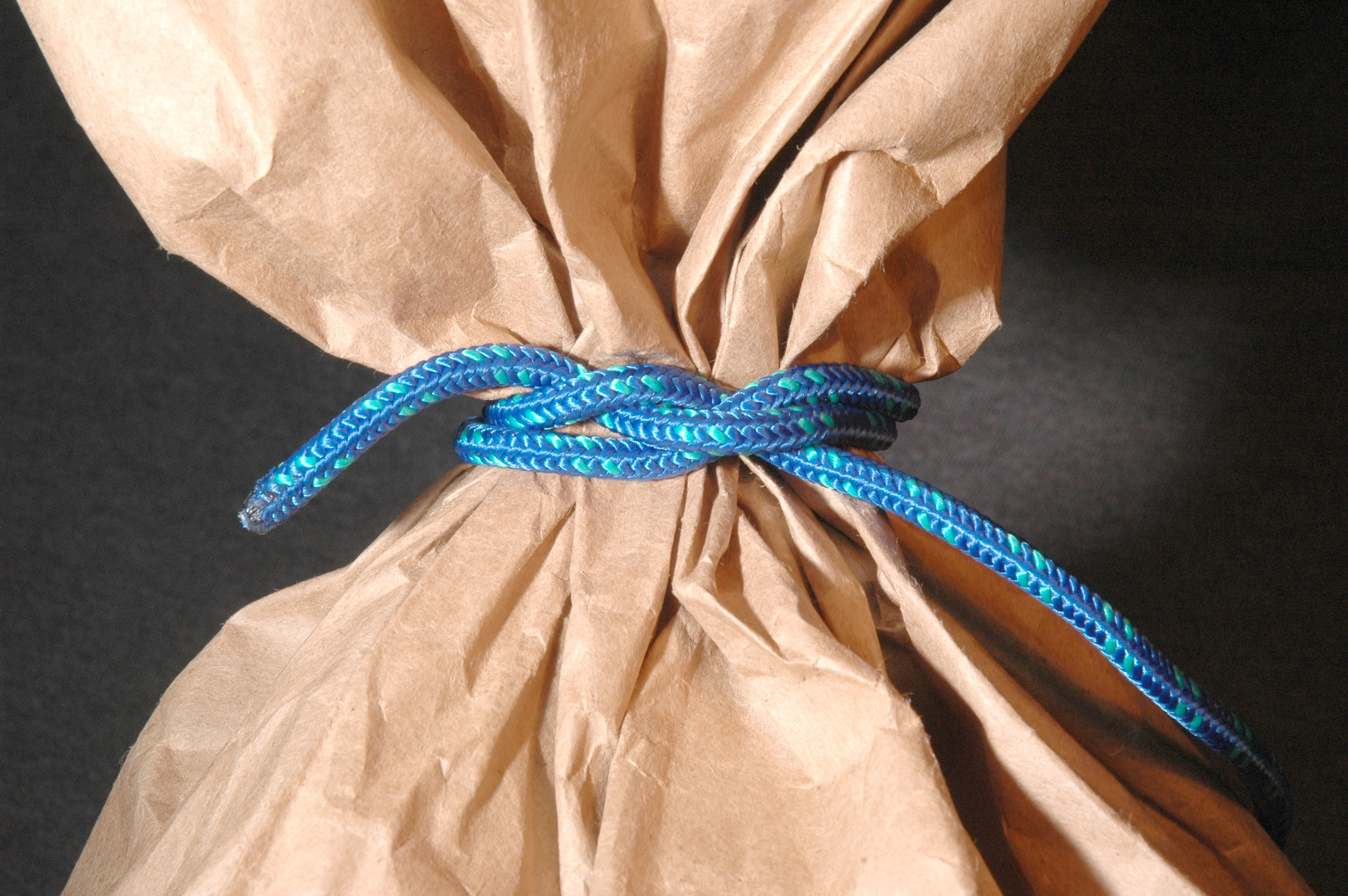 A Miller's knot (ABOK #1241) holding the neck of a bag closed.